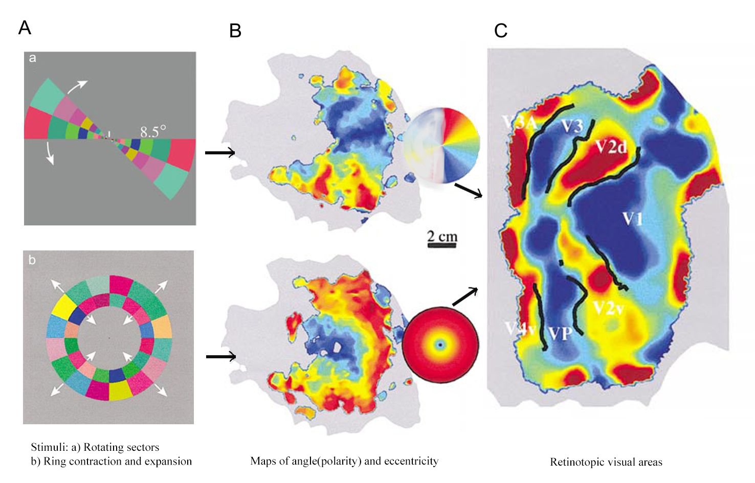 retionotopic maps with explanation